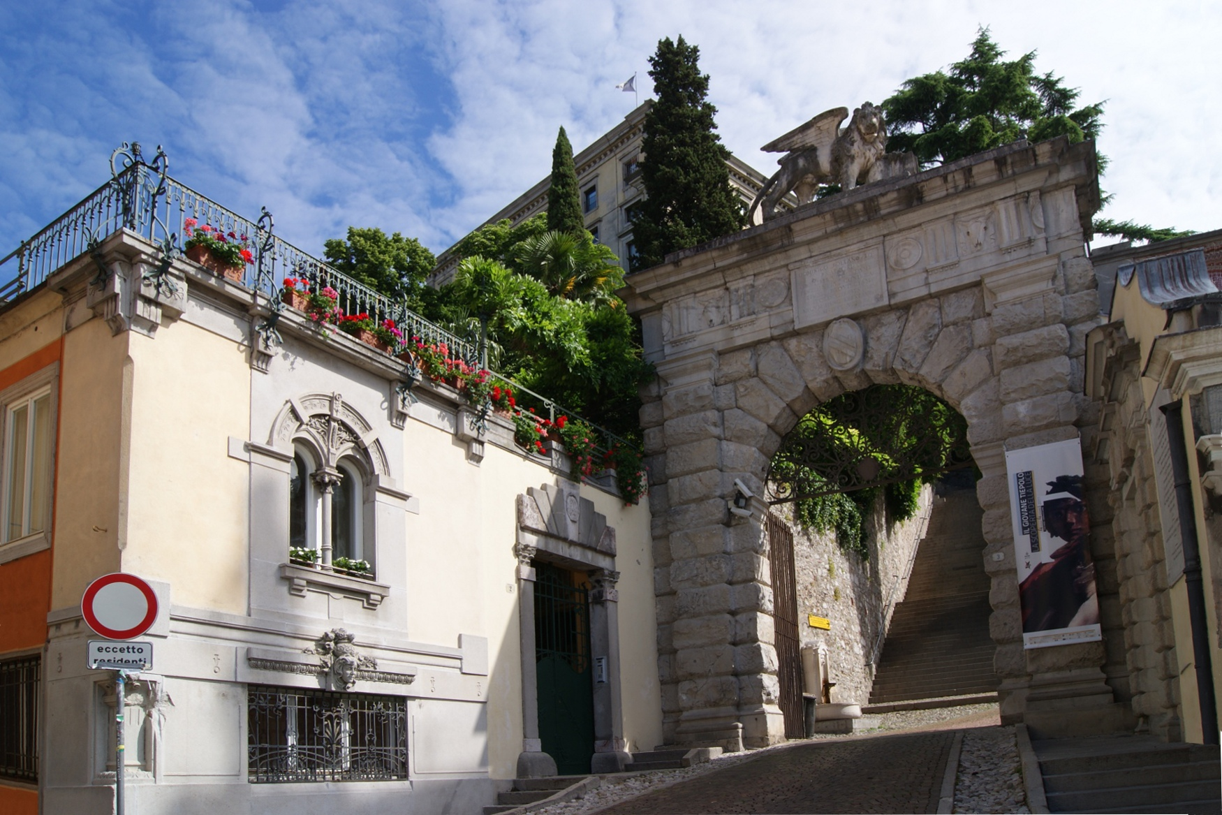 Arco Bollani in piazza Libertà in Udine. On the background, the Castle of udine witk the flag of the city.